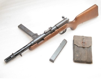 Submachine Gun Bergmann (Bergmann-Maschinen-Pistole, or abbreviated as BMP) was developed by the son of the famous gun manufacturer Theodore Bergman (Theodor Bergmann) - Emil. The first submachine gun Bergman appeared in 1932 and had the designation BMP 32.